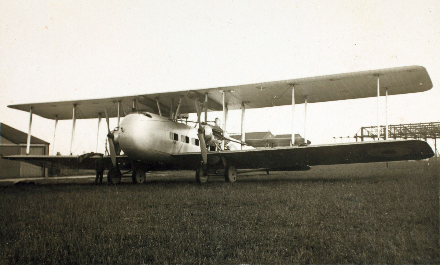 A Vickers Victoria